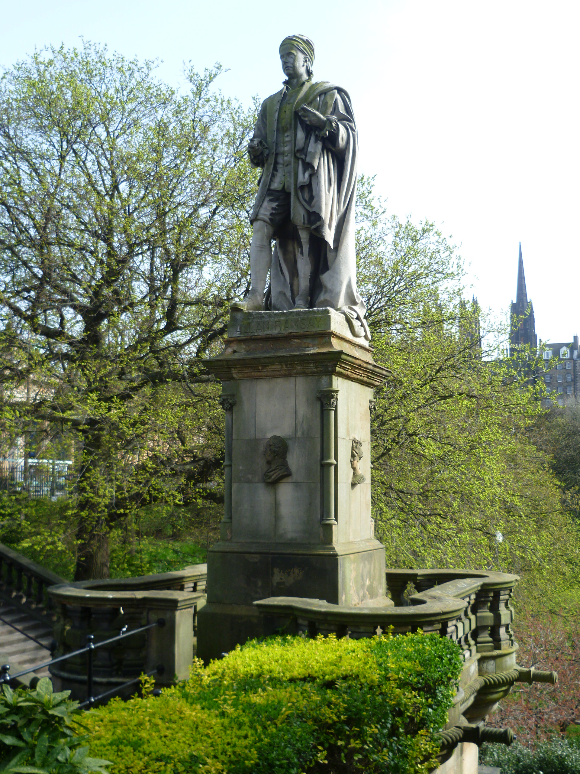 Allan Ramsay Statue, Princes Street Gardens, Edinburgh